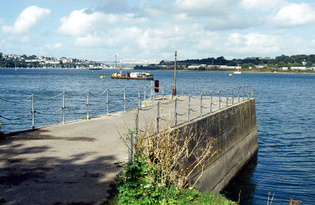 Jetty at Wilcove. Looking across the Hamoaze with the Tamar rail and road bridges in the distance.